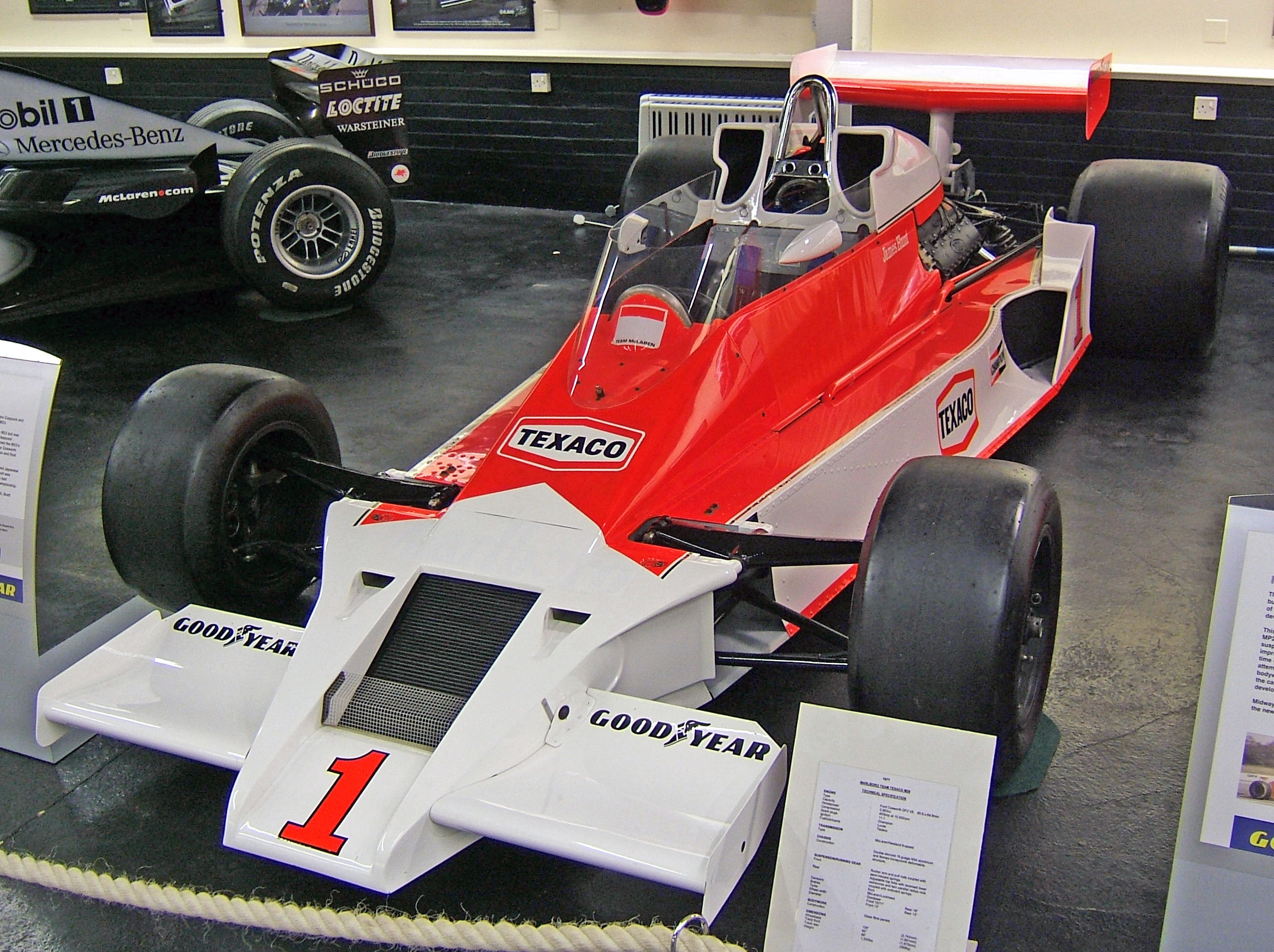 A McLaren M26. In the Donington Grand Prix Collection museum, Leics., UK.